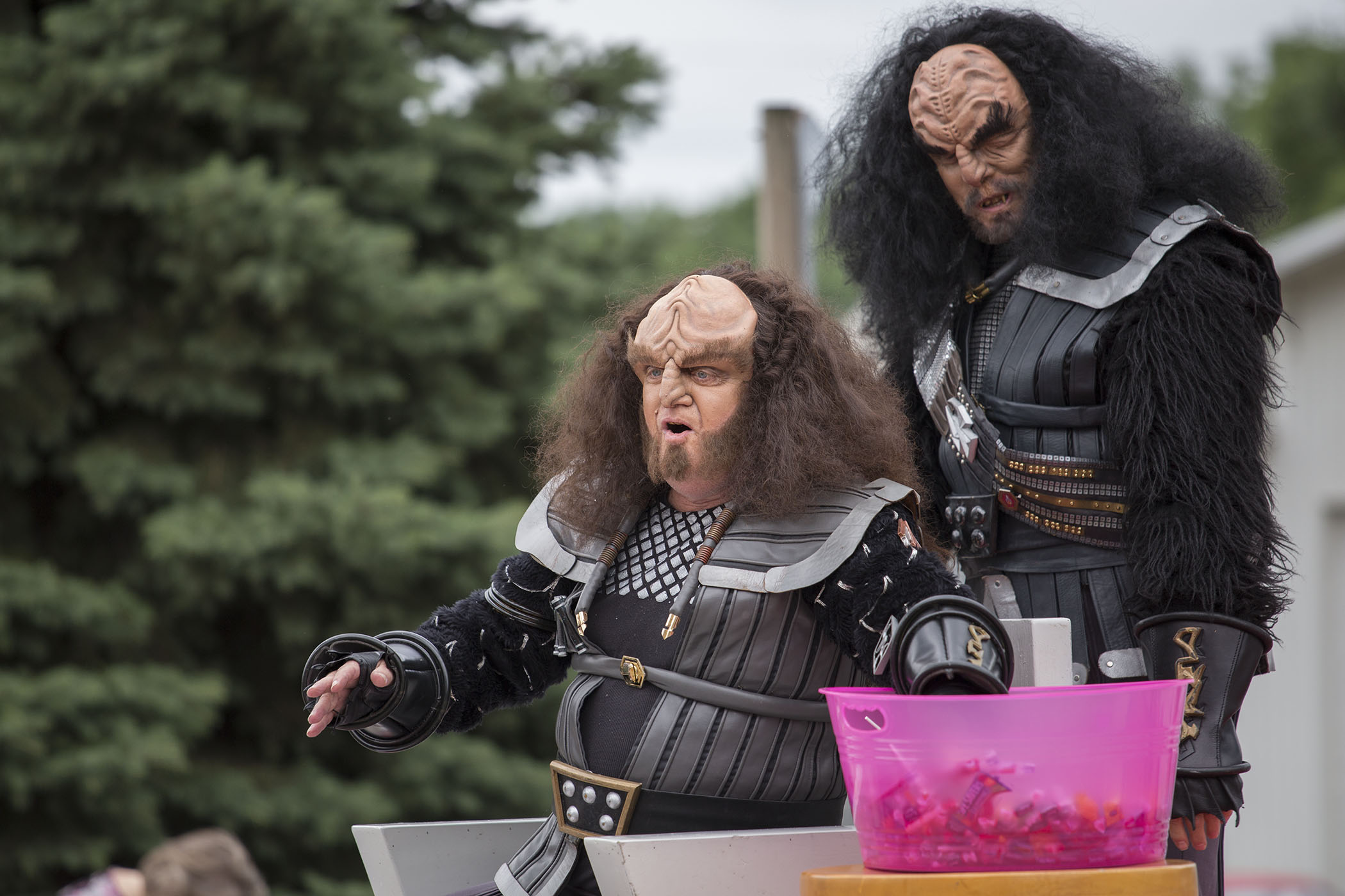 Robert O'Reilly (seated) as his Gowron character, with J. G. Hertzler as Martok, at the 2014 Annual Parade for Trek Fest in Riverside, Iowa.